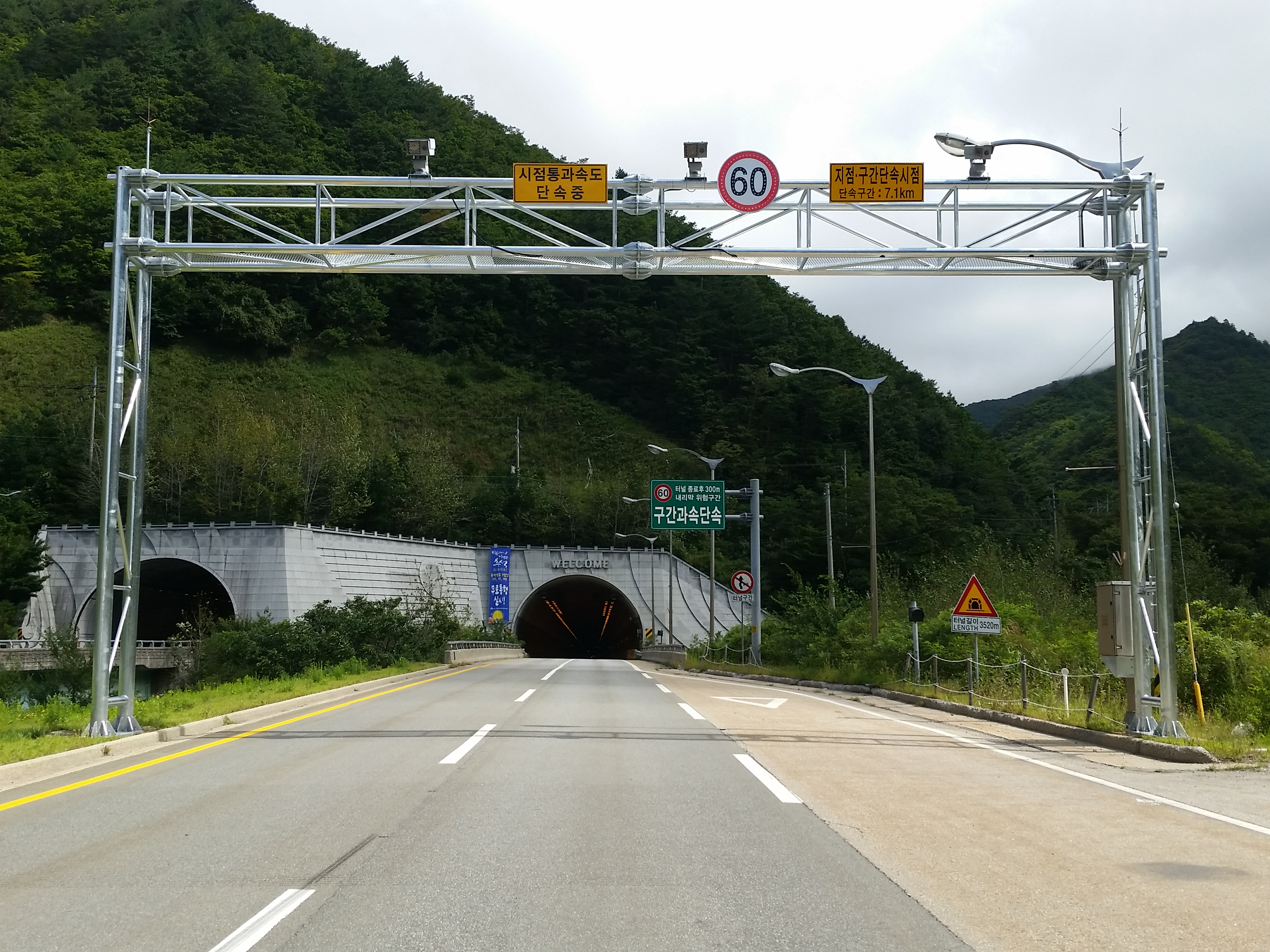 Automated Section Speed Enforcement System installed on Misiryeong Penetrating Road (Misiryeong Tunnel) in Gangwon Province, Korea